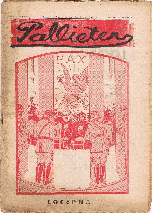 Locarno Treaty 1925. Front page of the Flemish magazine Pallieter (1922-1928). All front pages were designed and illustrated by Jos De Swerts (1890-1939).